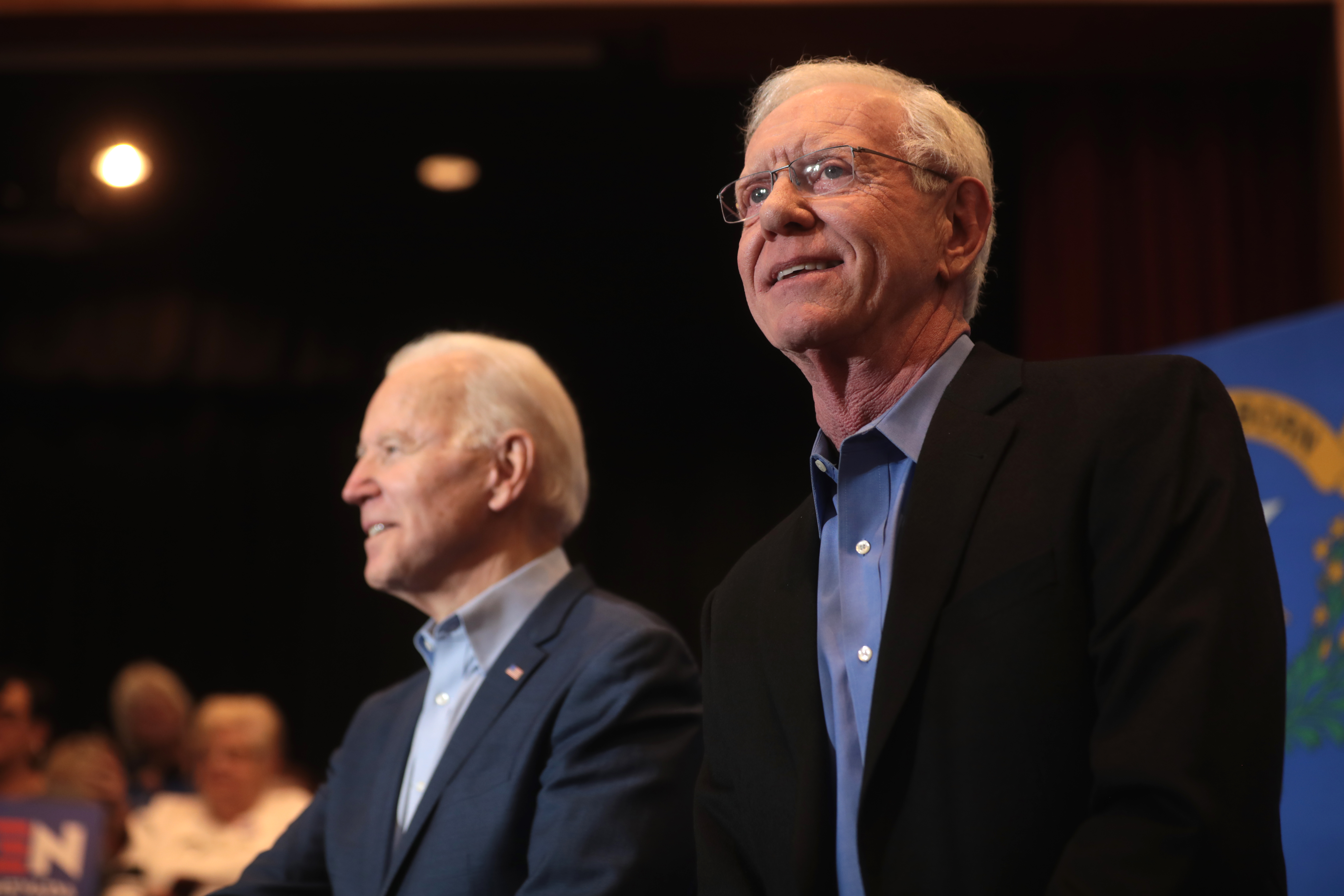 Former Vice President of the United States Joe Biden and Chesley "Sully" Sullenberger speaking with supporters at a community event at Sun City MacDonald Ranch in Henderson, Nevada.